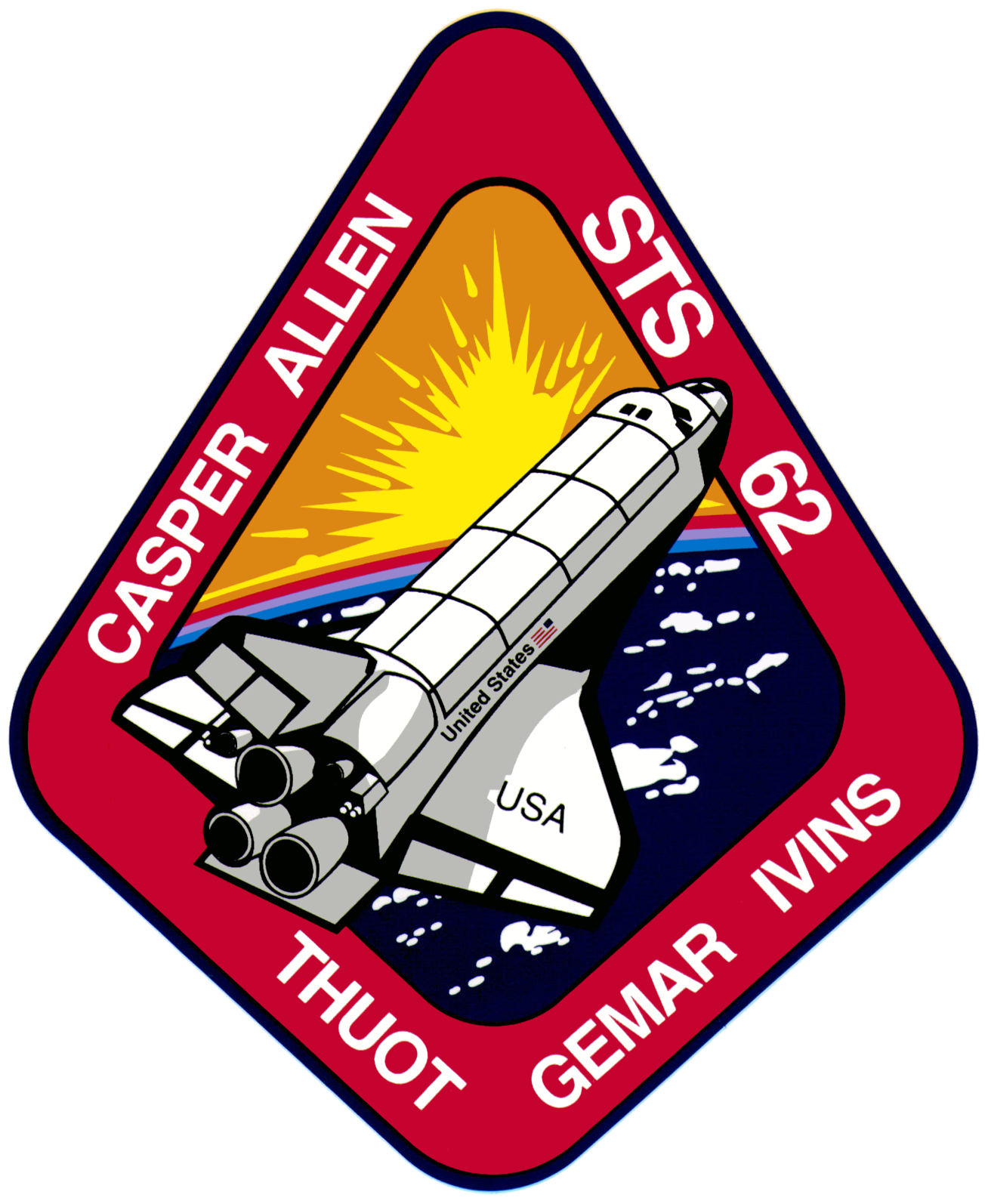 STS-62 Mission Insignia The STS-62 crew patch depicts the world's first reusable spacecraft on its sixteenth flight. Columbia is in its entry-interface attitude as it prepares to return to Earth. The varied hues of the rainbow on the horizon connote the varied, but complementary, nature of all the payloads united on this mission. The upward-pointing vector shape of the patch is symbolic of America's reach for excellence in its unswerving pursuit to explore the frontiers of space. The brilliant sunrise just beyond Columbia suggests the promise that research in space holds for the hopes and dreams of future generations. The STS-62 insignia was designed by Mark Pestana.